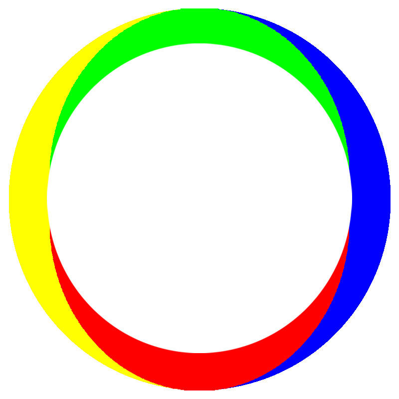 The wheel show the opponent colors yellow-blue and red-green according to the opponet theory proposed by Hering.